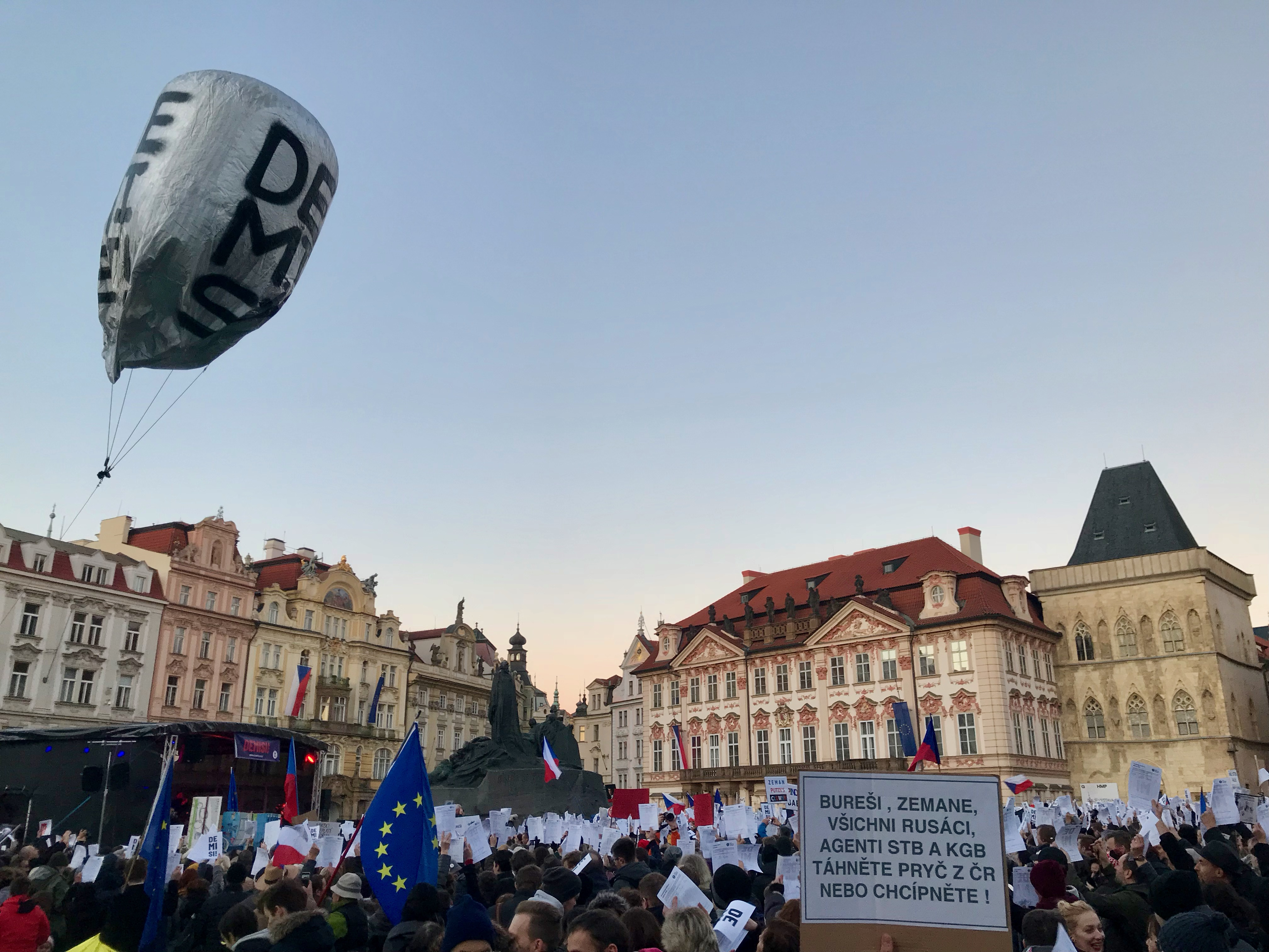 March and demonstration for polite Czech Republic – for demission of Andrej Babiš